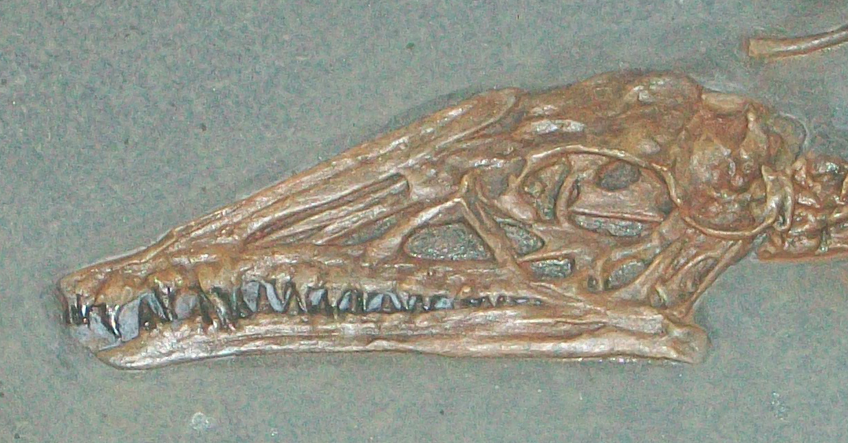 Skull of Campylognathoides sp., part of a cast of a skeleton (specimen AMNH 1713) in the American Museum of Natural History.